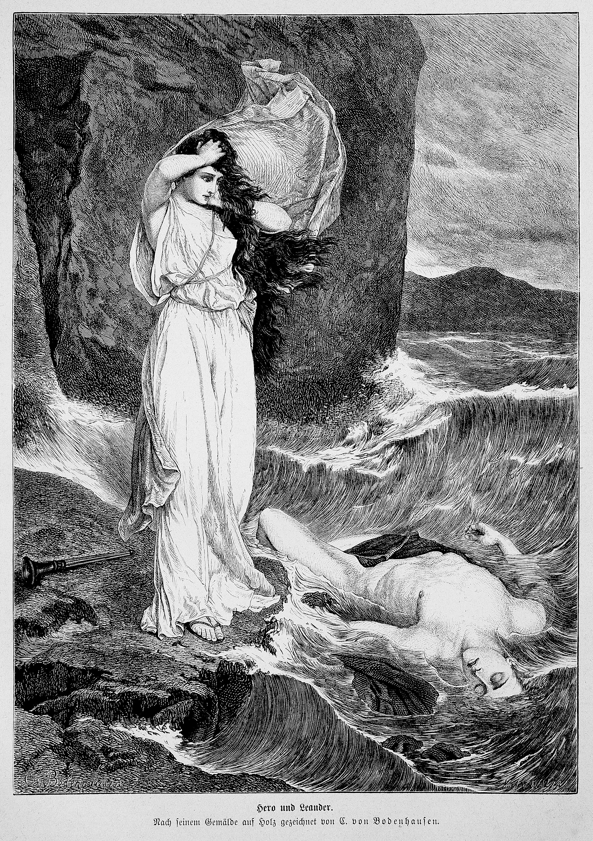 caption: "Hero und Leander. Nach seinem Gemälde auf Holz gezeichnet von C. von Bodenhausen."